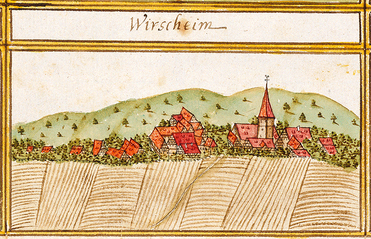 View of Wiernsheim from the forest register books created by Andreas Kieser